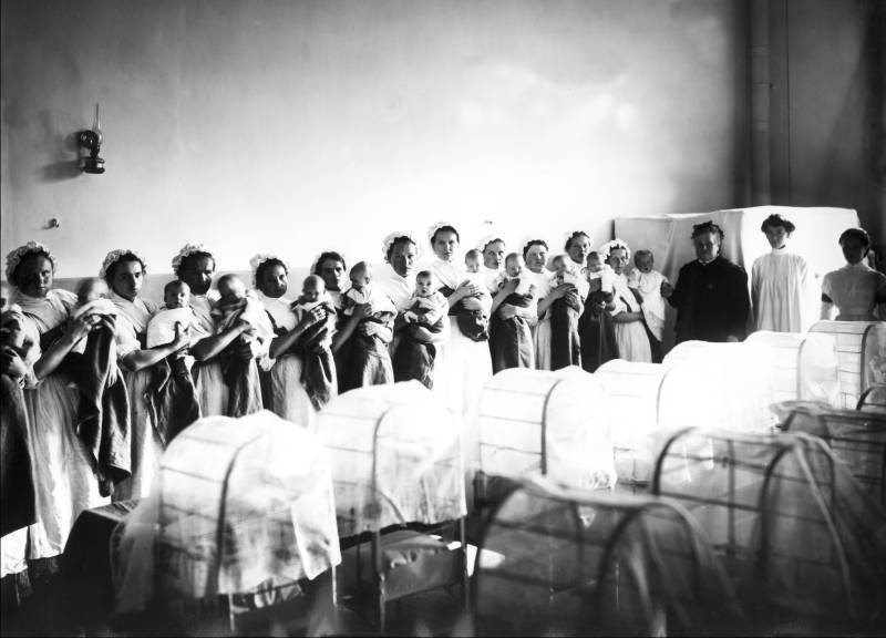 Грудное отделение Императорского воспитательного дома. Санкт-Петербург. 1913. Фото ателье К. К. Буллы